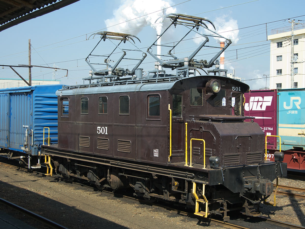 Gakunan Railway ED501 (built in 1928) in Hina station.